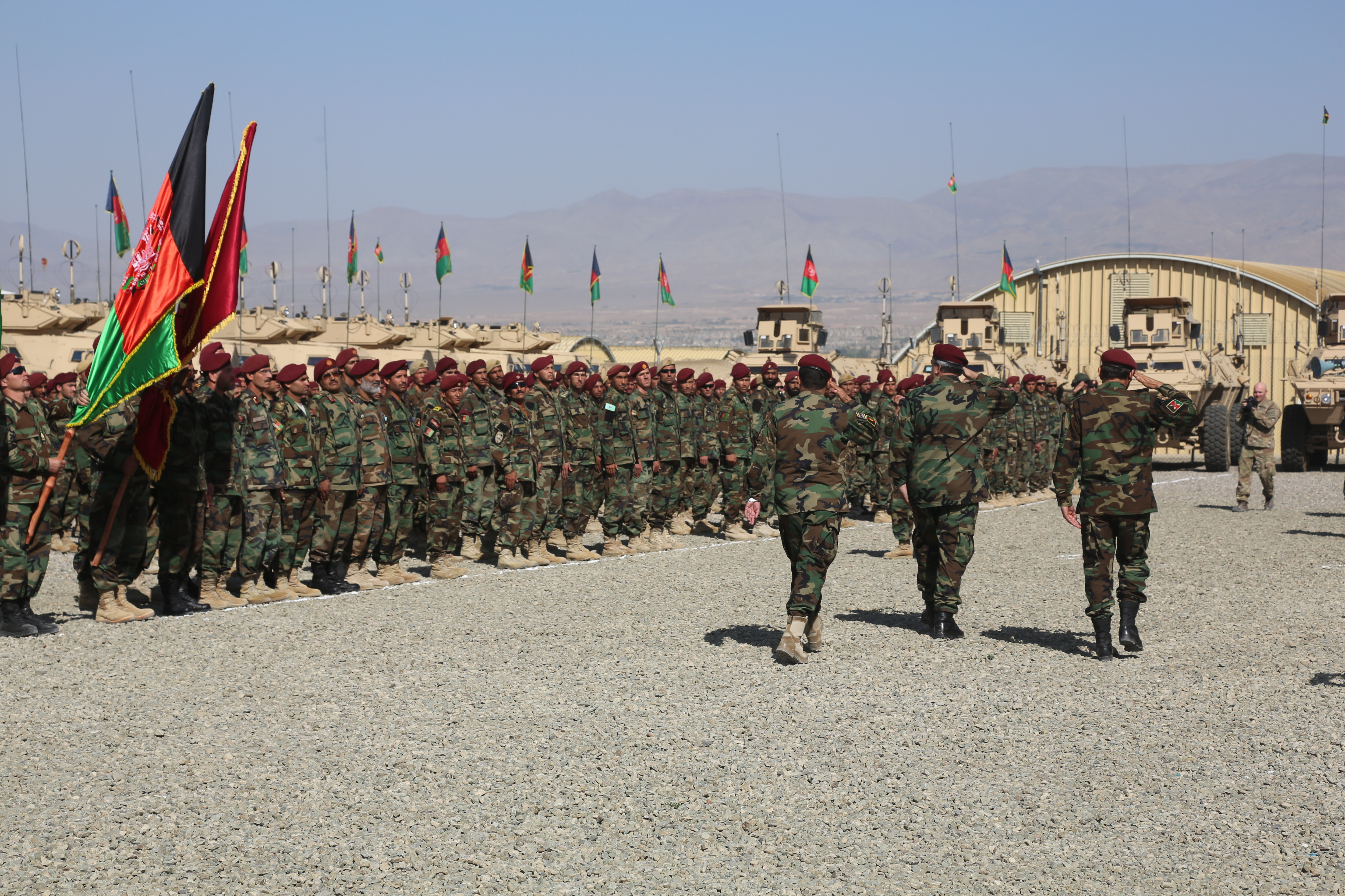 Afghan National Army Brig. Gen. Abdul Karim, the commando commander of the 1st Special Operations Brigade, inspects a formation Aug. 20, 2013, during the brigade's opening ceremony at Forward Operating Base Thunder in Paktia province, Afghanistan.